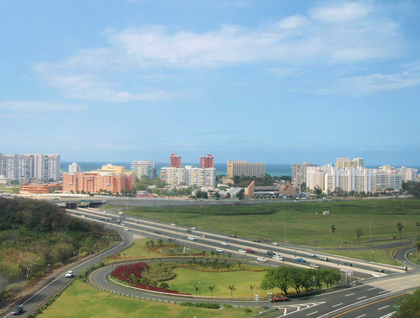 The skyline of Isla Verde in Puerto Rico, as seen by aircraft on final approach to Luis Muñoz Marín International Airport. Photographed by user Coolcaesar on March 31, 2009.